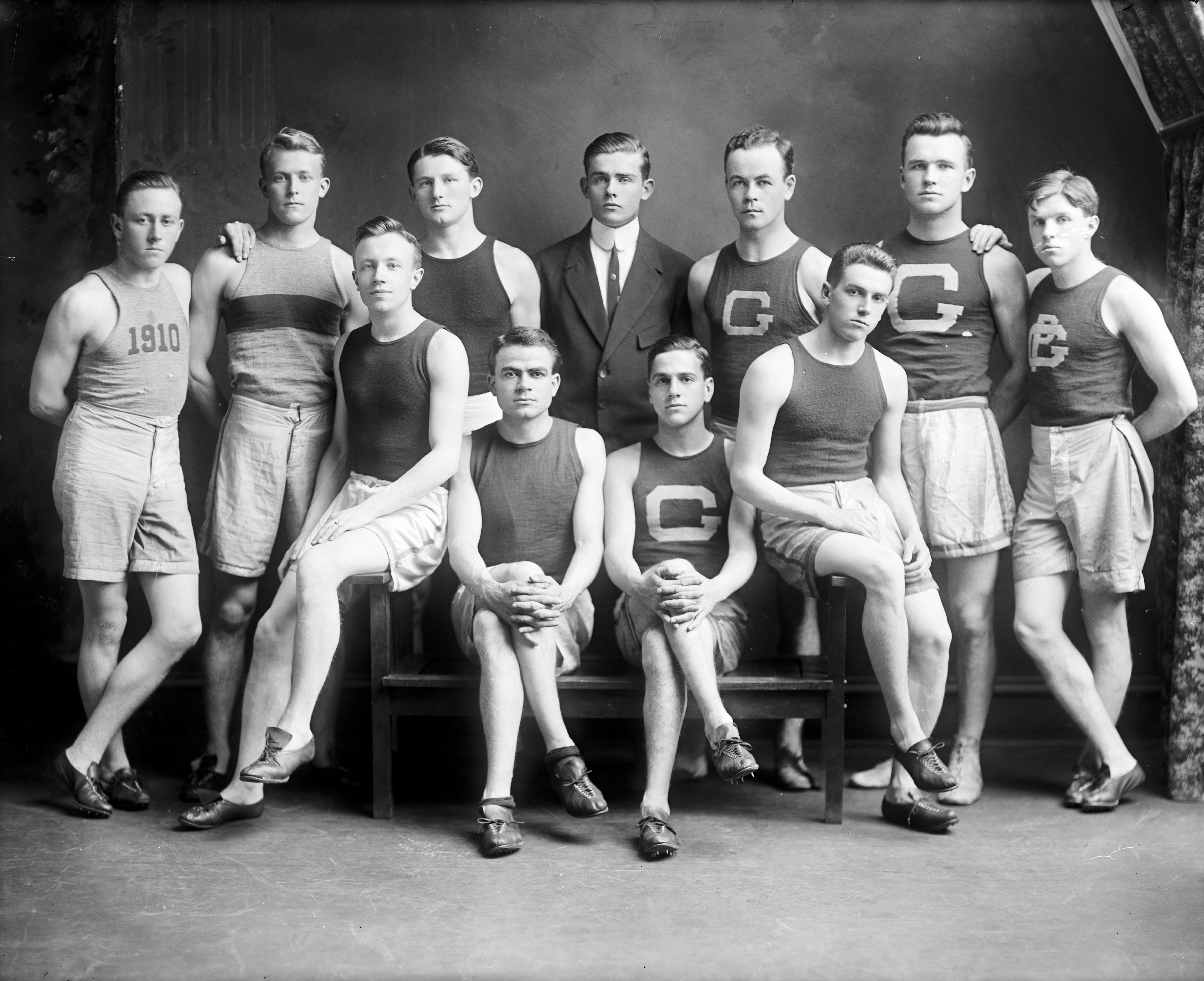 Georgetown varsity track team, ca. 1910. One of the members has "1910" on his shirt, probably designating either the year or the class of (eg, will graduate in 1910)